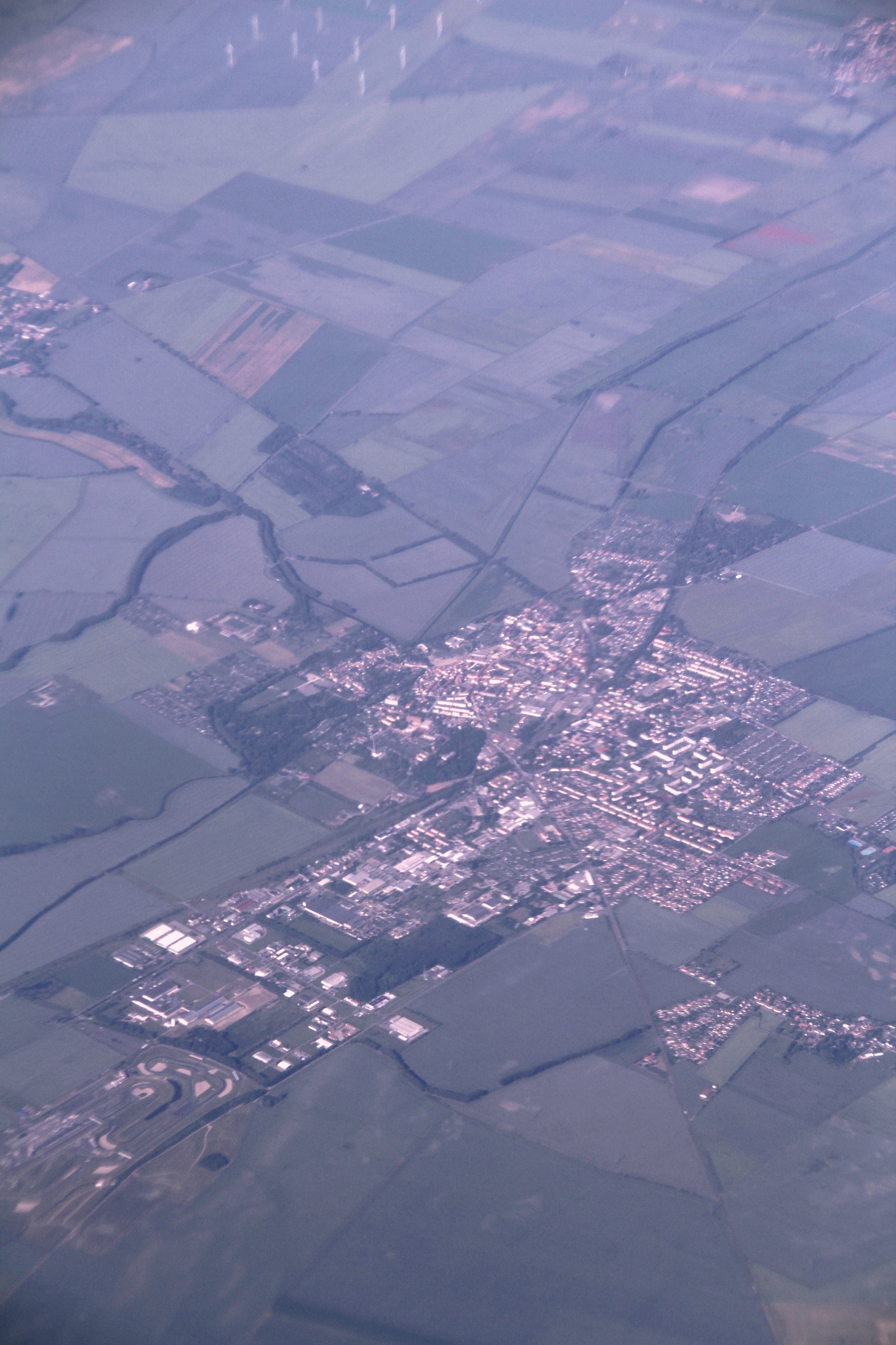 Aerial view, from the east towards west. over Sachsen-Anhalt state of central Germany.